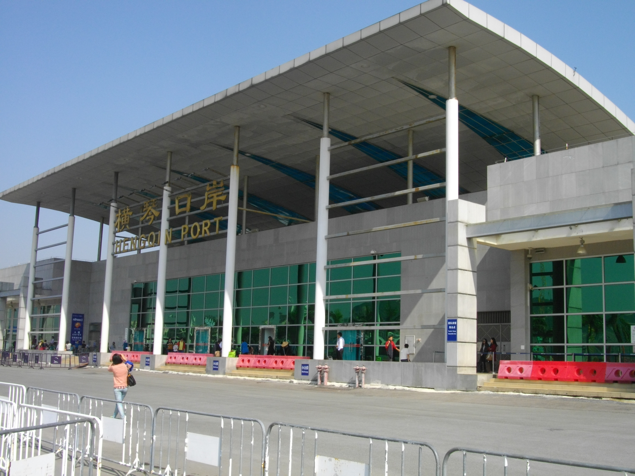 Hengqin Port Control Point